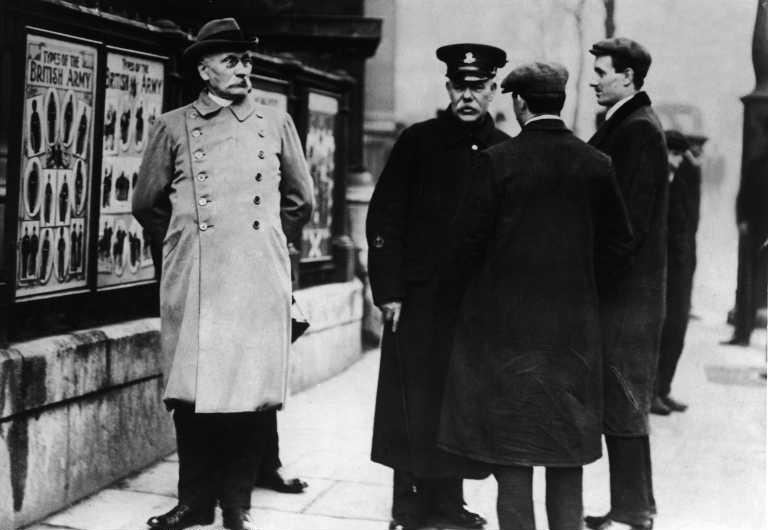 Wilhelm Voigt (1849-1922)